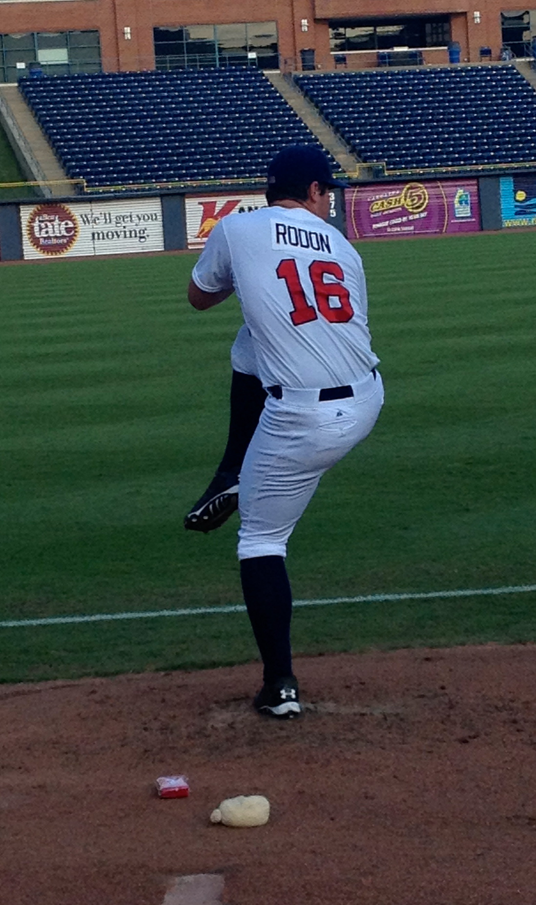 Carlos Rodon - Team USA - 2013